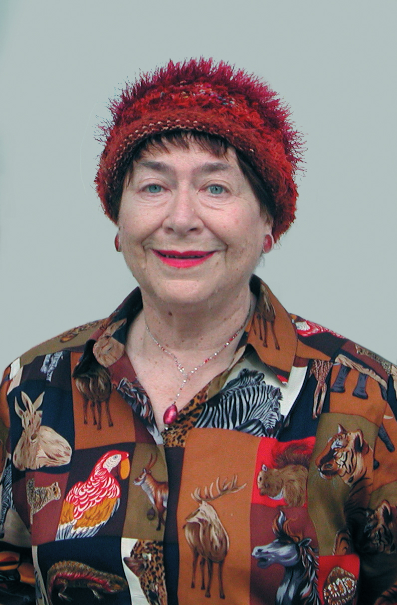 Dr. Marlene J. Norst, Macquarie University